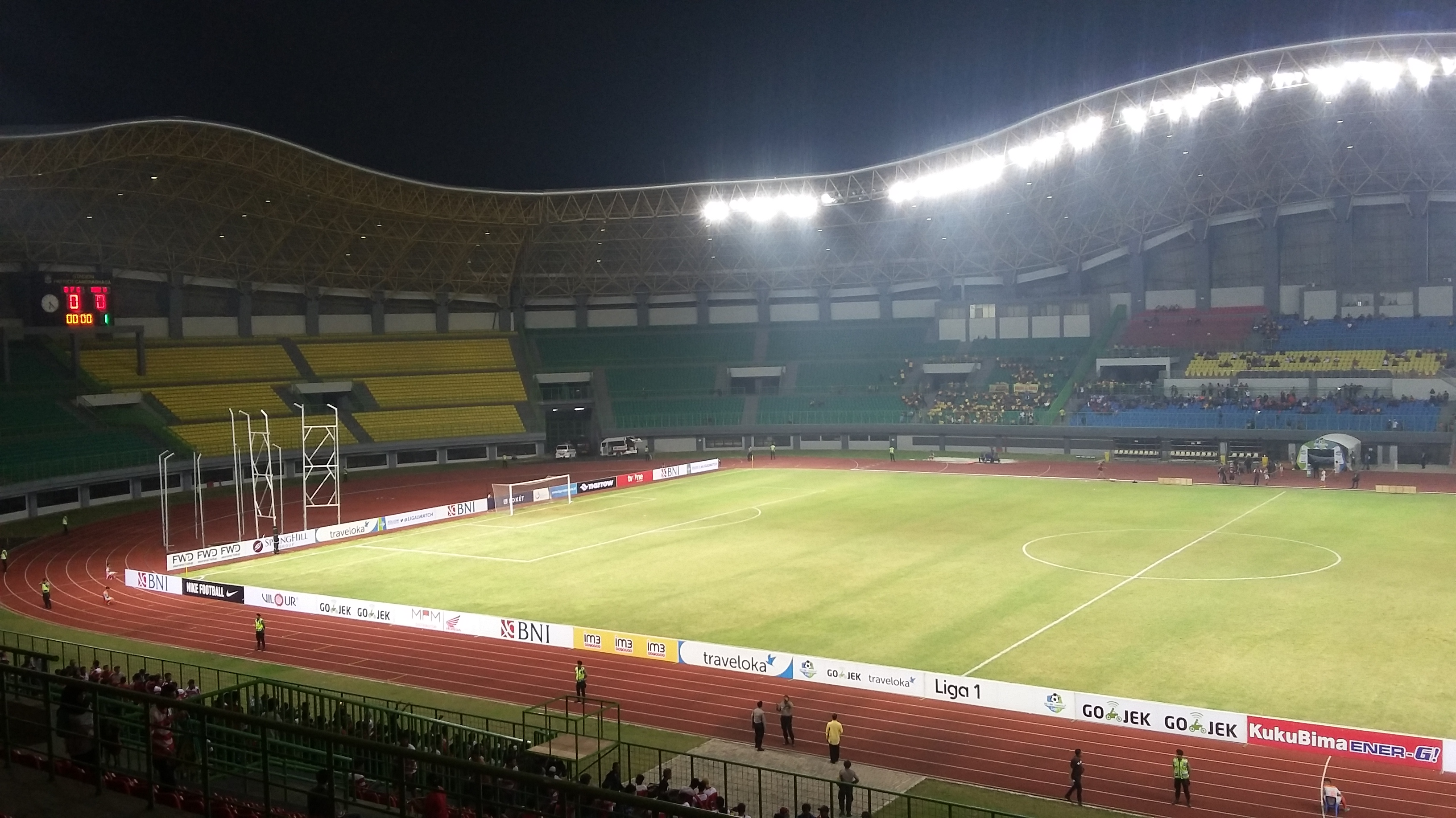 Patriot Chandrabhaga Stadium